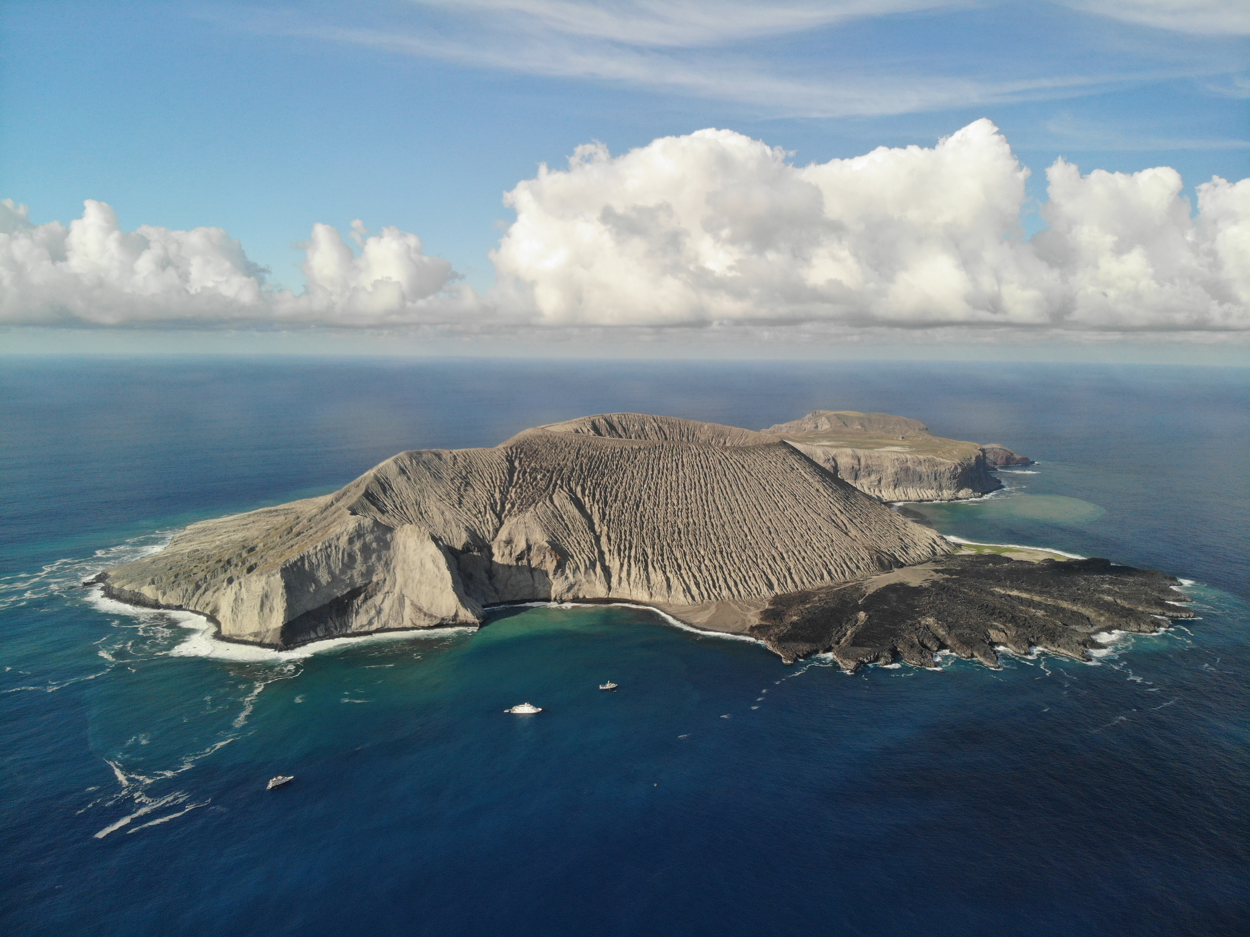 An image taken using a Mavic Air Drone during a scuba diving trip. The drone was 500 meters high to capture the whole Island.